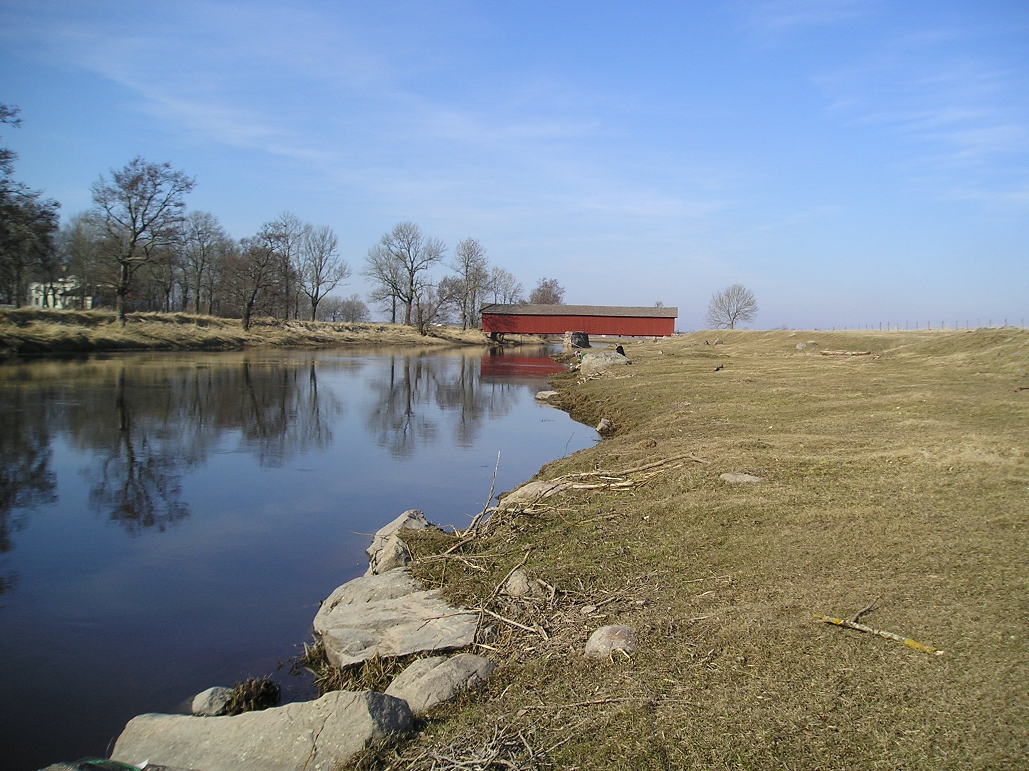 River Tidan in Vad Parish, Skövde Municipality, former Skaraborg County, Västergötland, Västra Götaland County, Sweden.